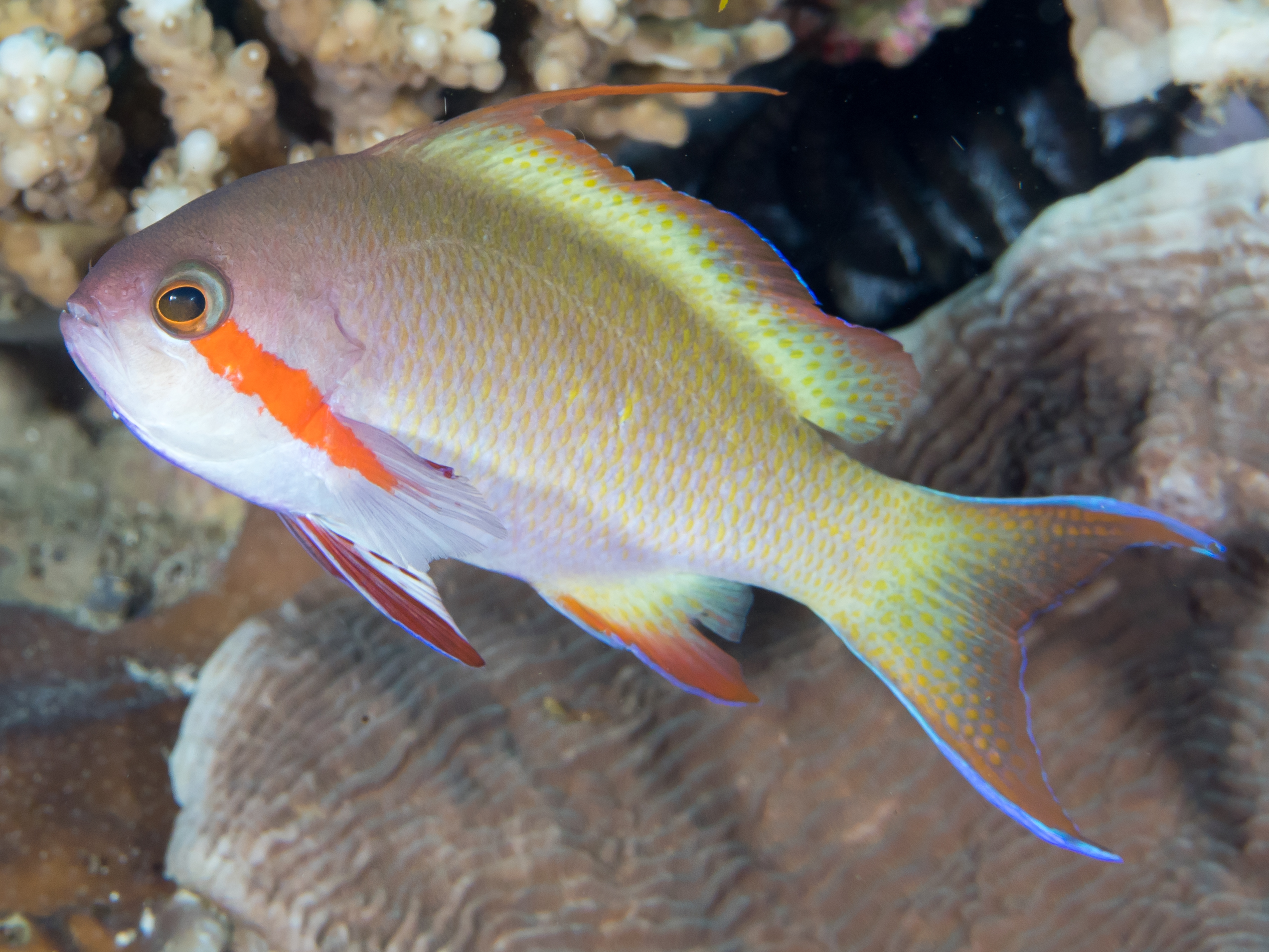 Morotai, Indonesia - Red-cheeked anthias (Pseudanthias huchtii)